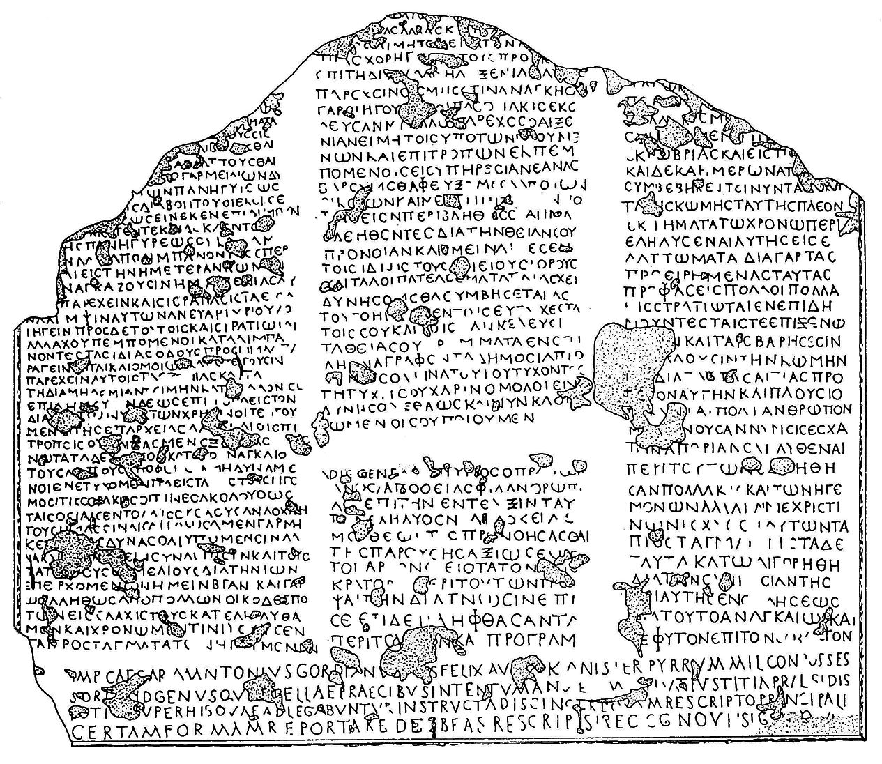 Petition to Gordianus III from the inhabitants of Scaptopara (modern Blagoevgrad) AE 1892, 0040=AE 1994, 1552=AE 1995, 1373